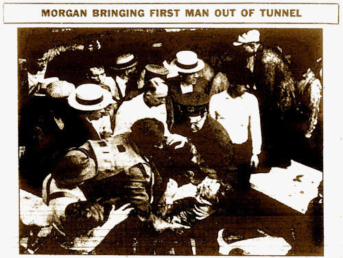 Garrett A. Morgan rescuing a man at the 1917 Lake Erie Crib Disaster